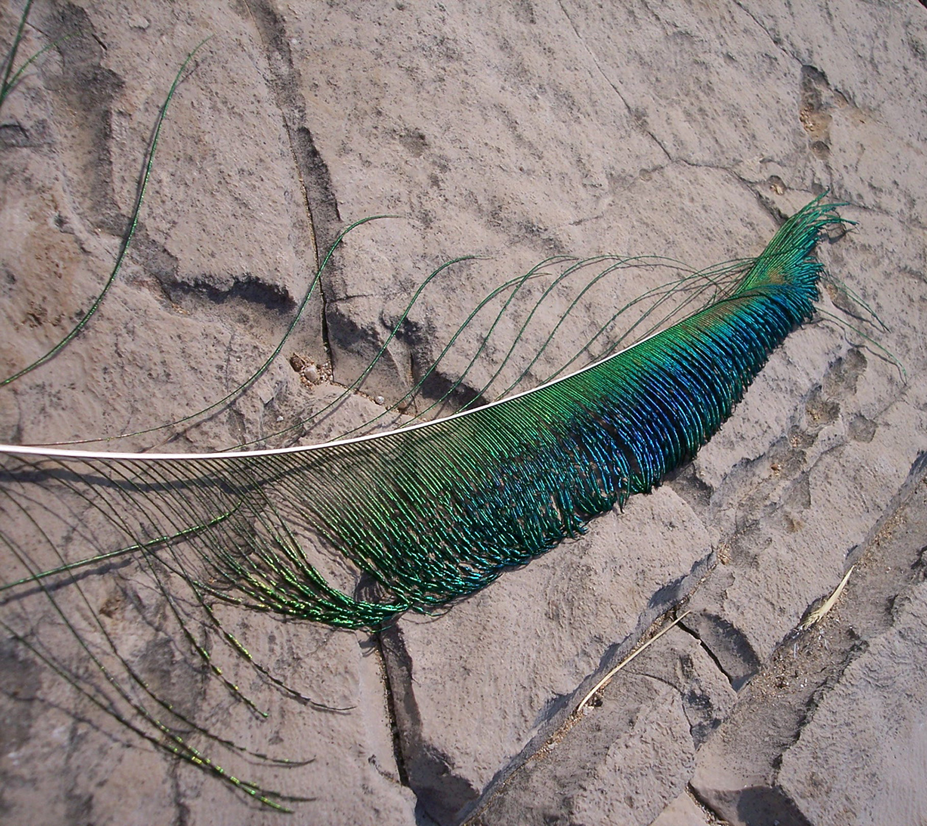 Feather of a male Indian Peafowl (Pavo cristatus)